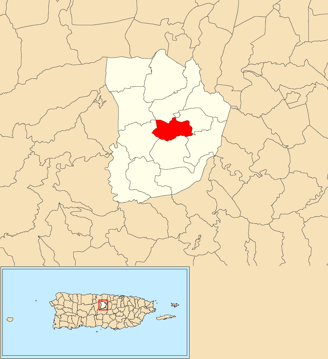 Morovis Sud, Morovis, Puerto Rico locator map